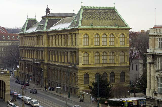 Building of Museum of Decorative Arts in Prague